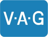 V.A.G logo - this was the former logo of 'Volkswagen AktienGesellschaft', more commonly known as the Volkswagen Group